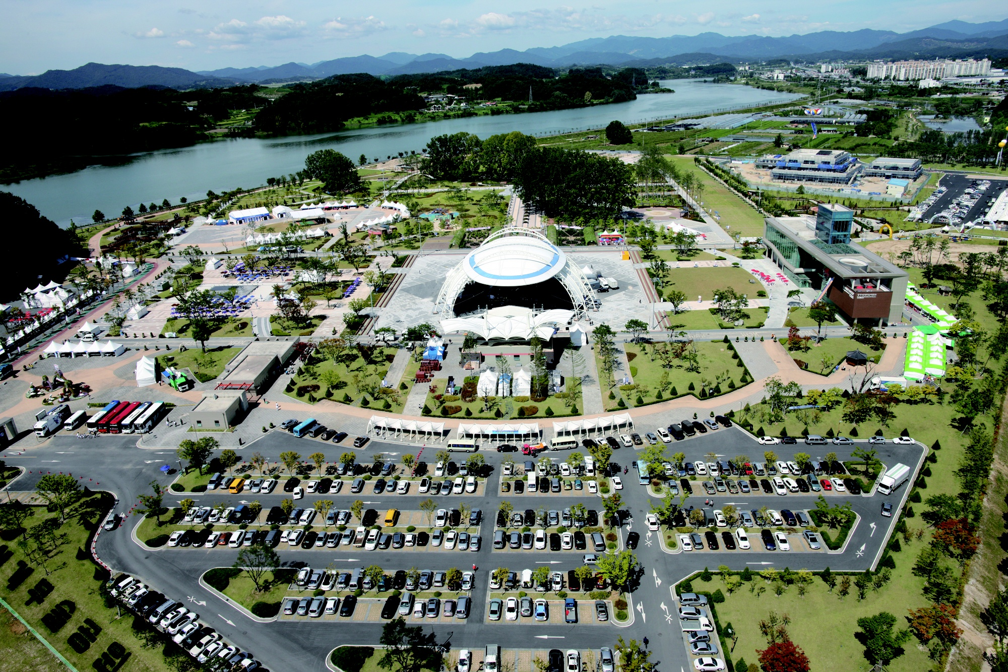 Chungju Martialarts park